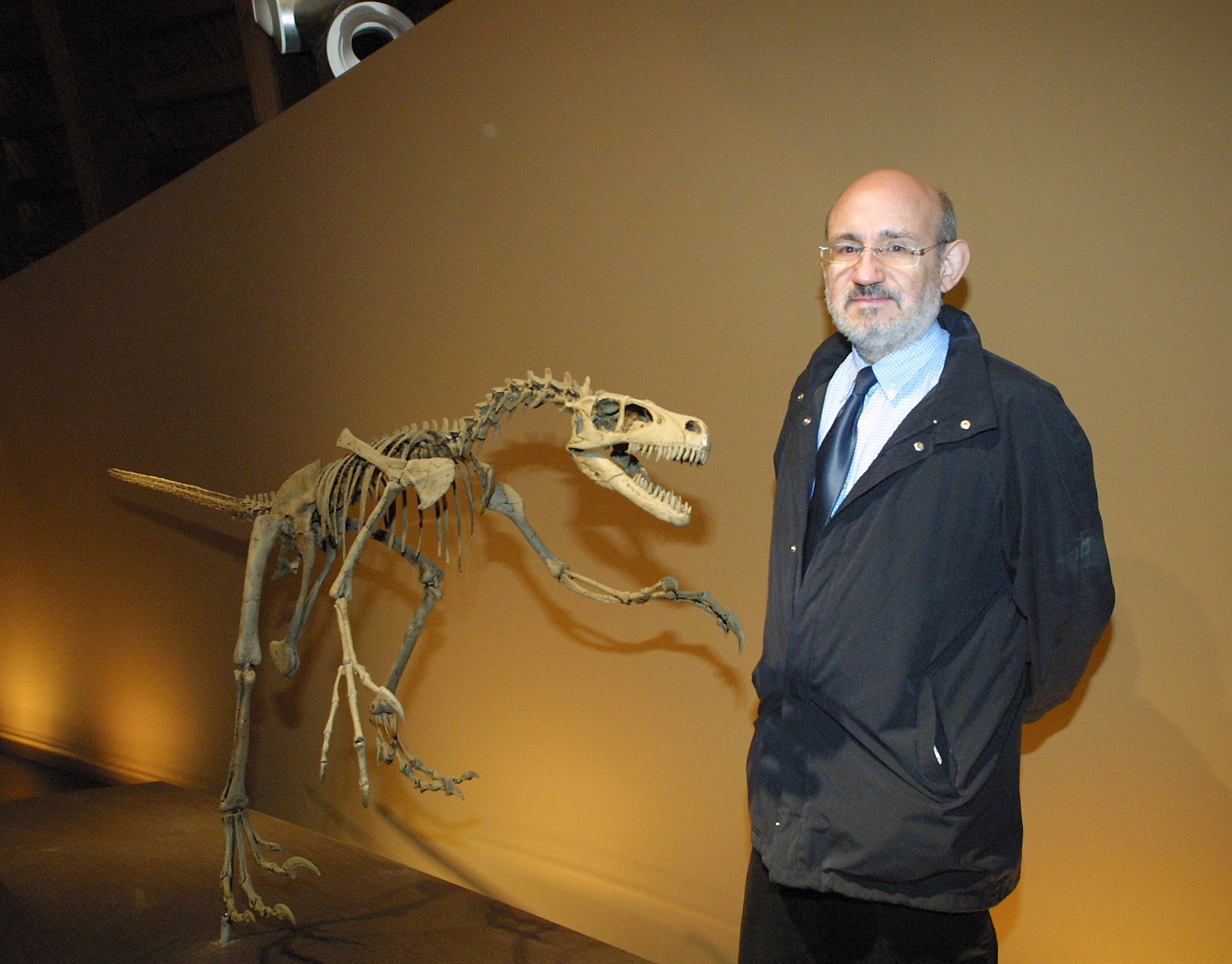 The Spanish paleontologist José Luis Sanz at the Jurassic Museum of Asturias (Museo del Jurásico de Asturias, Spain) and a cast of a Dromaeosaurus skeleton.